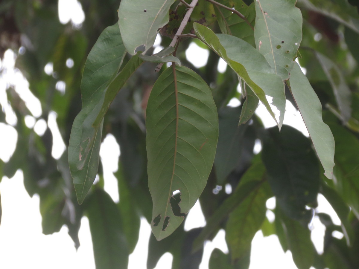 Vatica chinensis - This is a critically endangered tree of the western ghats.